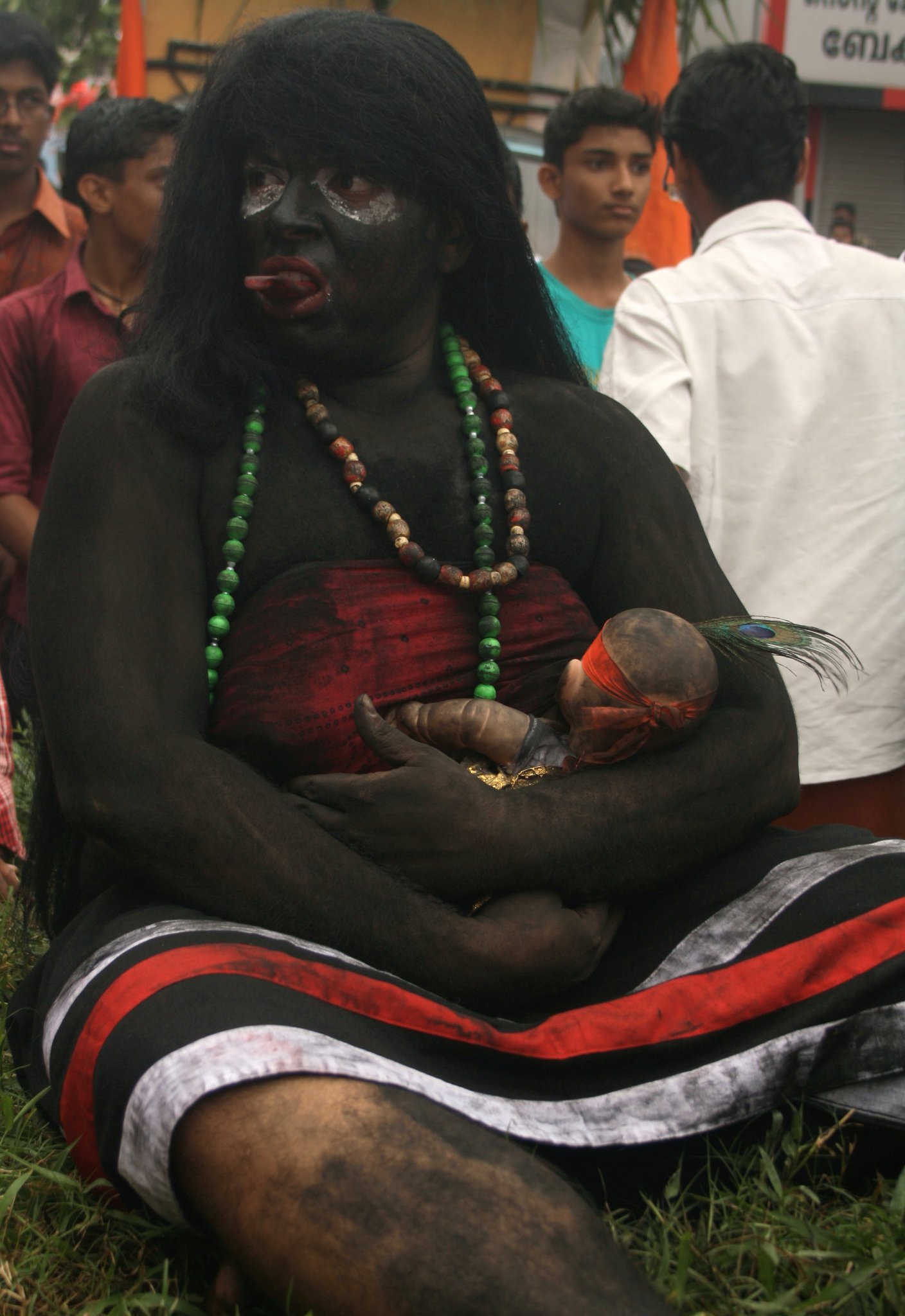 Poothana - Ashtami Rohini - Vazhappally